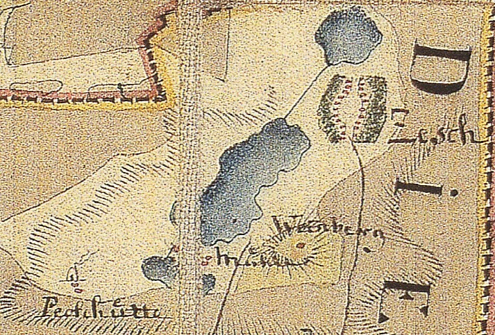 Zesch am See auf der Schmettauschen Karte von 1767-87, Lindenbrück, Stadt Zossen, Brandenburg, Deutschland